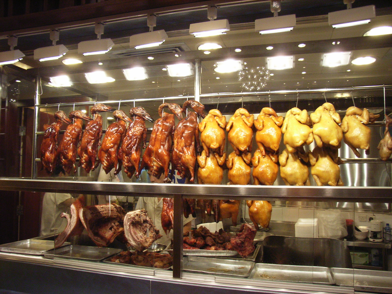 Roasted foods 燒鵝 鼓油雞 燒肉 燒味類 BBQ